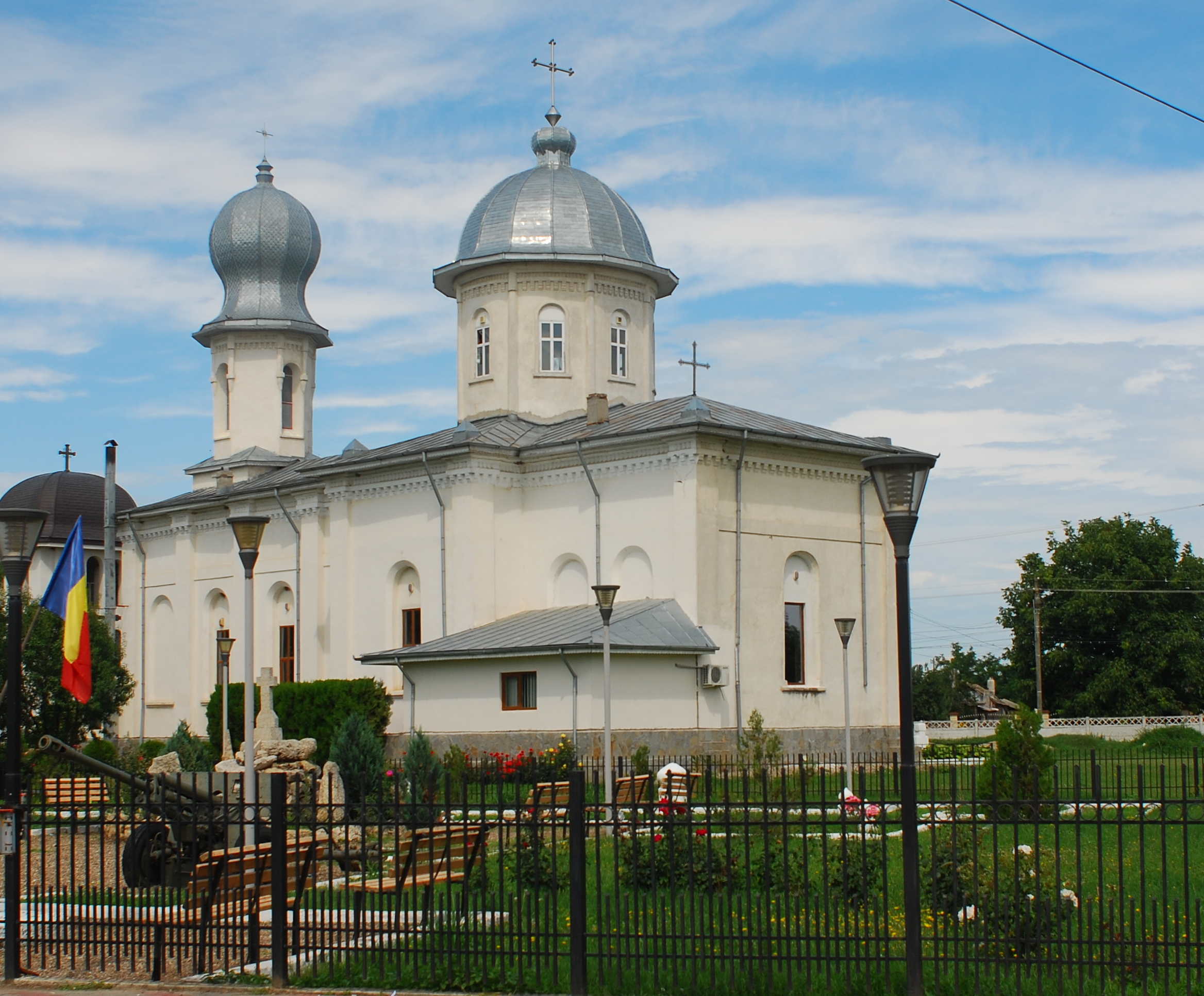 Orthodox church in Gherăseni, Buzău County, Romania